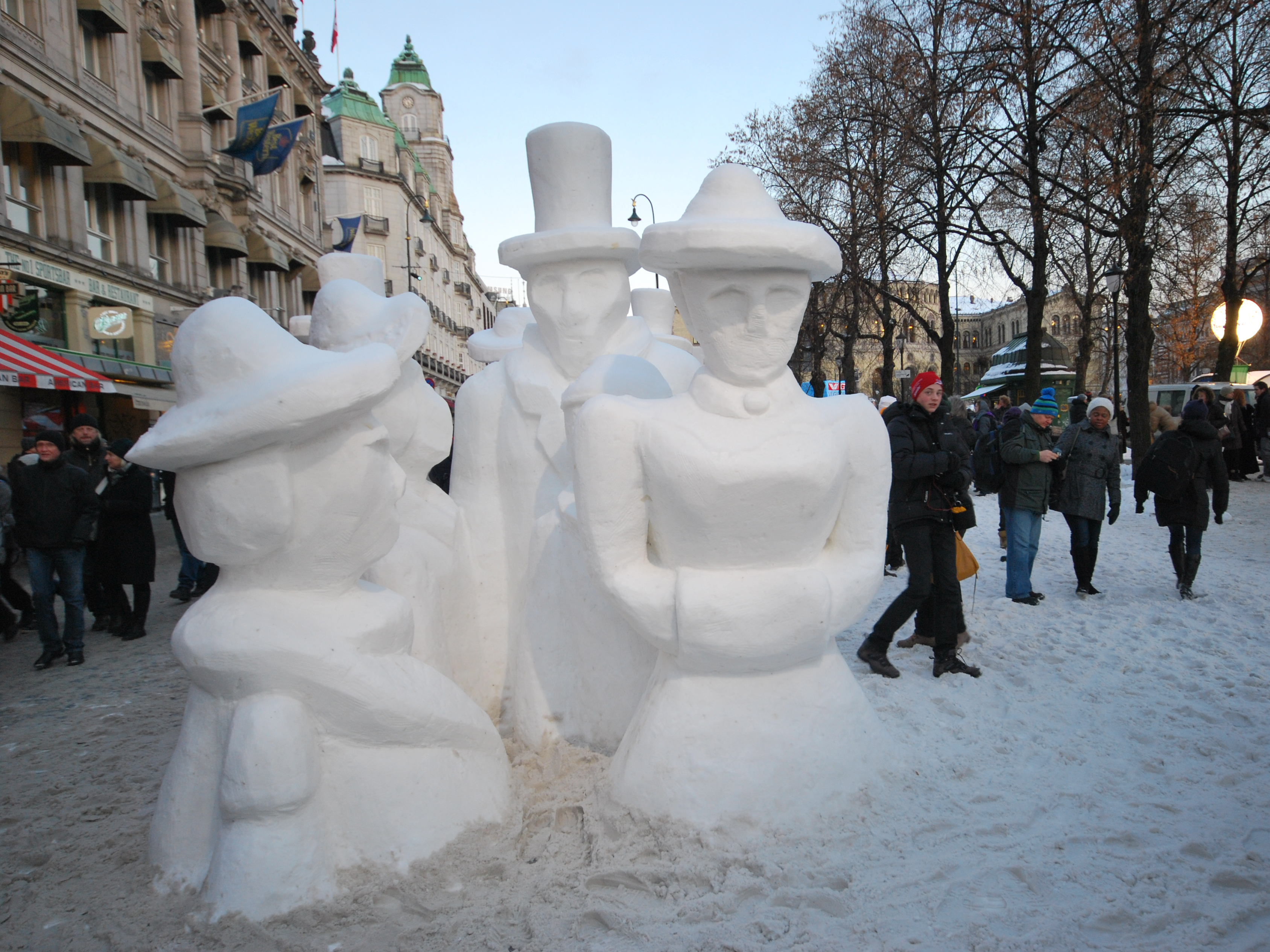 Snow and ice sculptures "Evening on Karl Johan" (Norwegian "Aften på Karl Johan") after Edvard Munch. Artist Luca Bonetti, Italy. Placed on Karl Johans gate, Oslo's main street, during FIS Nordic World Ski Championships 2011, as part on cultural programme